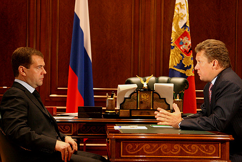 GORKI, MOSCOW REGION. With chairman of the Board of Gazprom Alexei Miller.